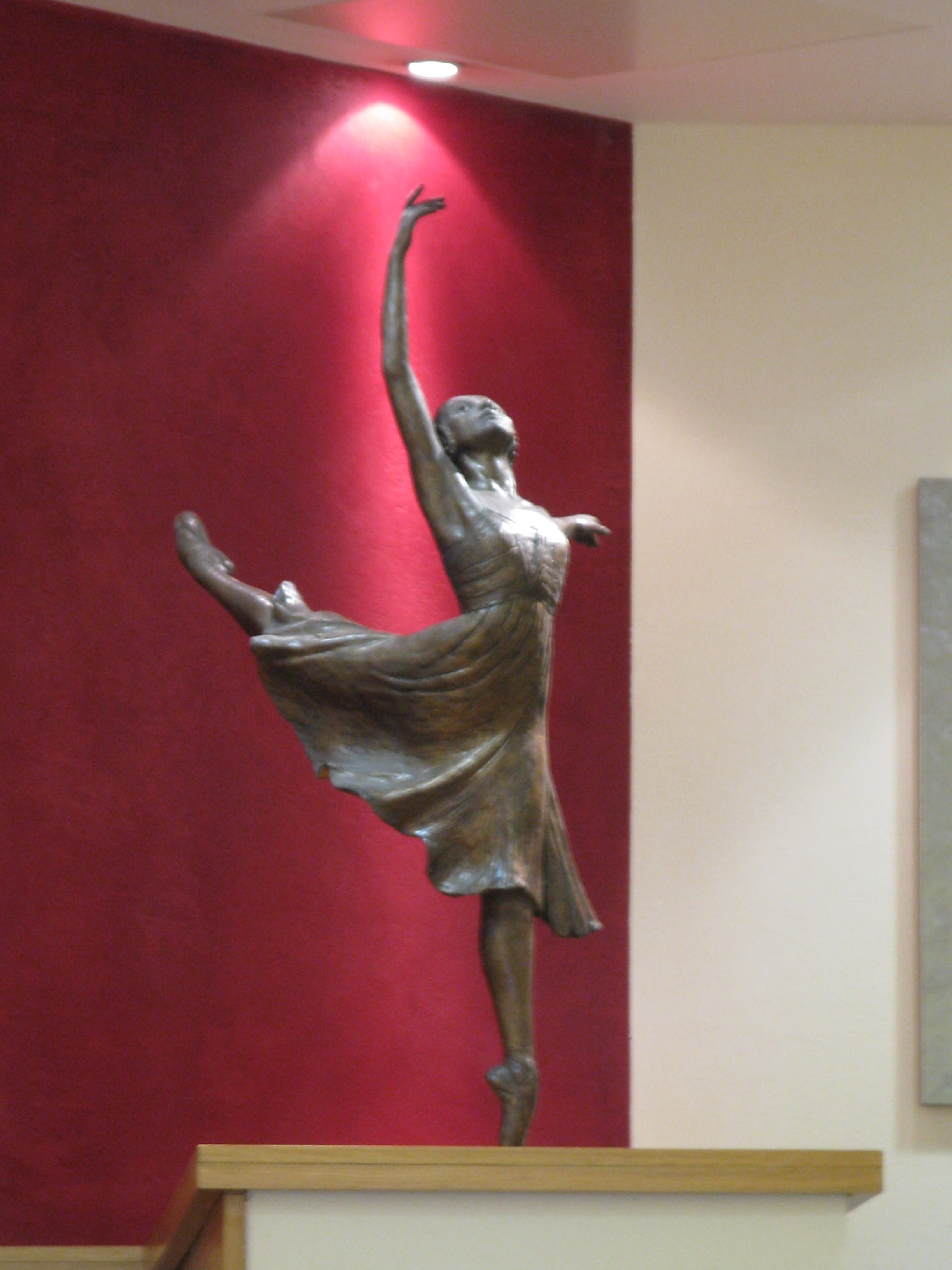 Statue of Alessandra Ferri as 'Juliet' by Nathan David Inside the Royal Ballet School. 張天愛 Flora Cheong-Leen